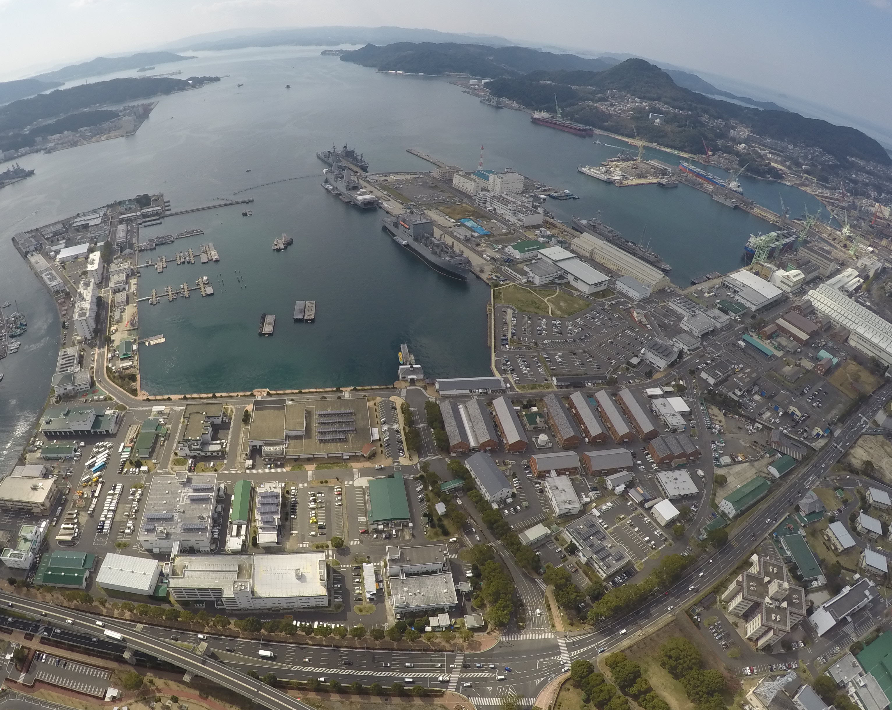 Aerial view of U.S. Fleet Activities Sasebo. The facility supports 13 forward-deployed Naval forces and 26 tenant commands across 11 geographic locations, with a community of 7,000 sailors, civilians, and family members.